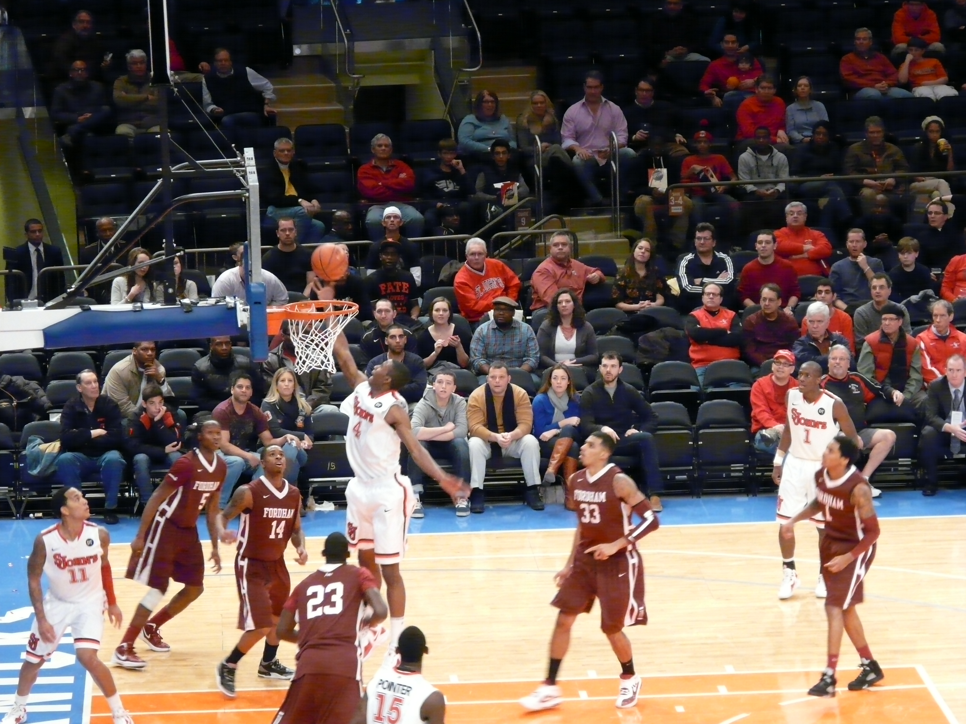 Moe Harkless of the St. John's Red Storm makes a lay-up at Madison Square Garden against Fordham.